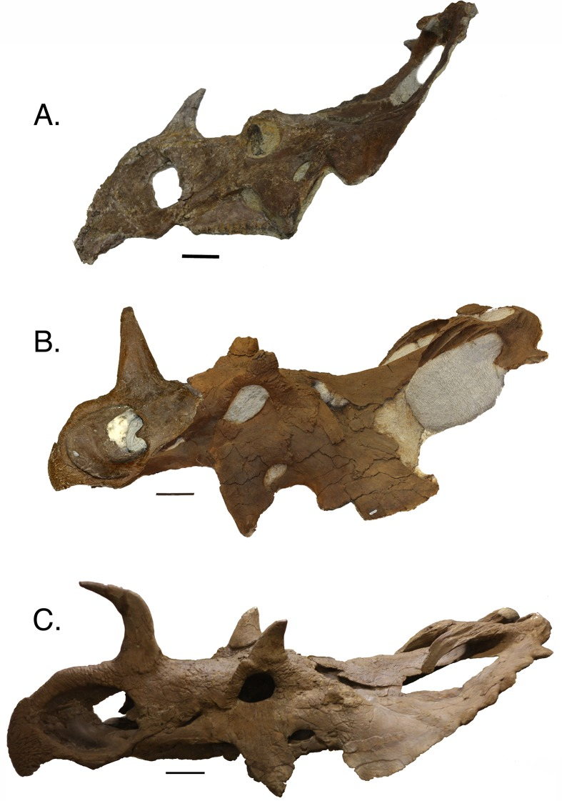 Three nasal horn character states. (A) recurved, TMP 1992.082.0001; (B) straight, TMP 1994.182.0001 (composite, mirror imaged); (C) procurved, UALVP 11735. Scale is equal to 10 cm.